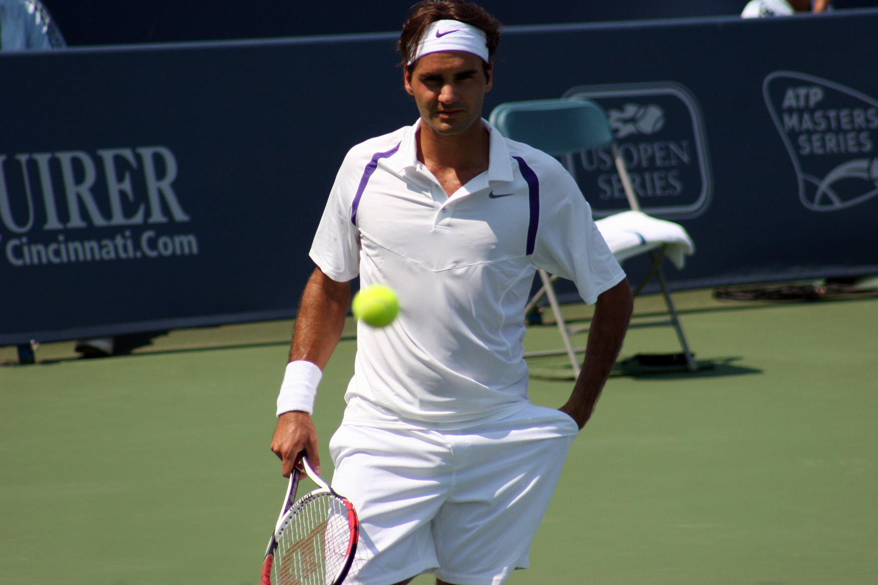 Roger in his quarterfinal match at the 2007 Cincinnati Masters.